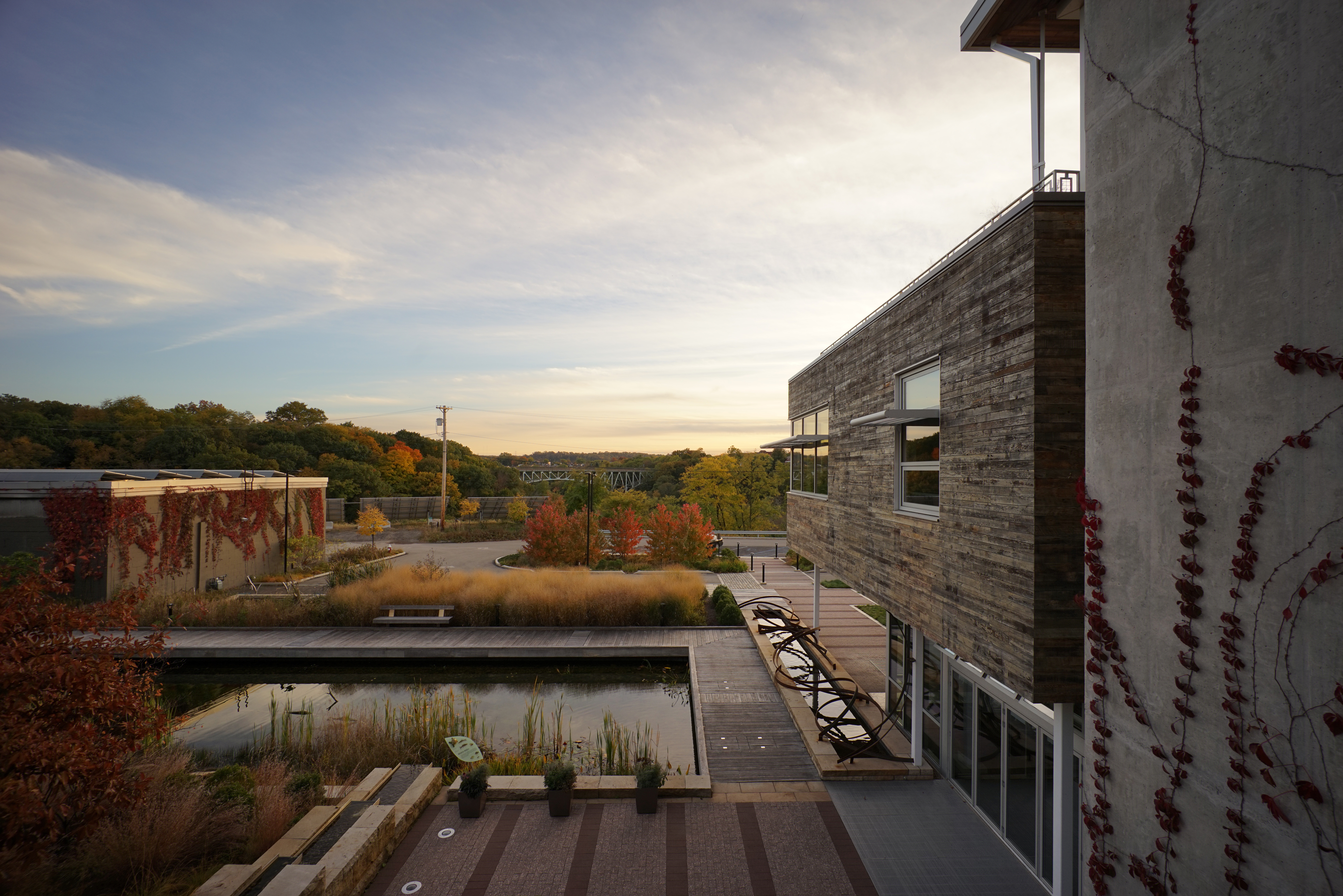 The Center for Sustainable Landscapes at the Phipps Conservatory. The Phipps Conservatory and Botanical Gardens is a complex of buildings and grounds set in Schenley Park, Pittsburgh, Pennsylvania. Founded in 1893, the gardens serve to educate and entertain the people of Pittsburgh with formal gardens.